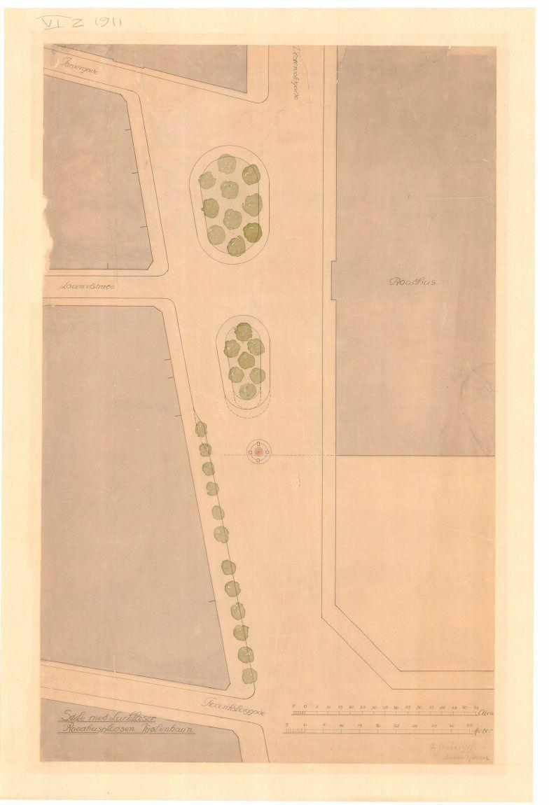 Anthon Tosen's 1011 plan for the Lur Blowers Column in Copenhagen, Denmark